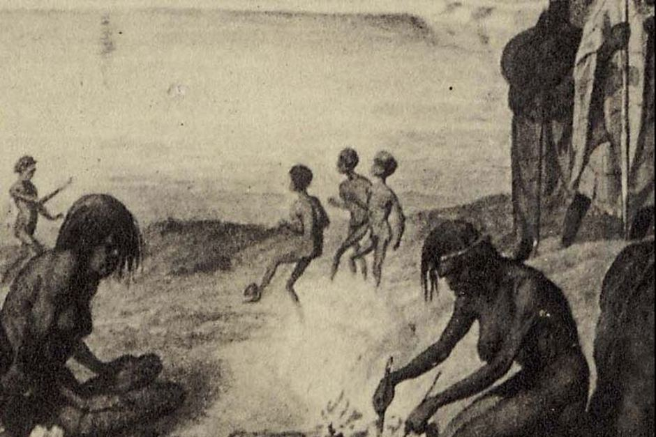 Aboriginal domestic scene. The etching was executed by German artist Gustav Mützel, who worked from the sketches of German explorer Johan Wilhelm Theodor Ludwig von Blandowski (see Marn Grook: name of the early australian football game).